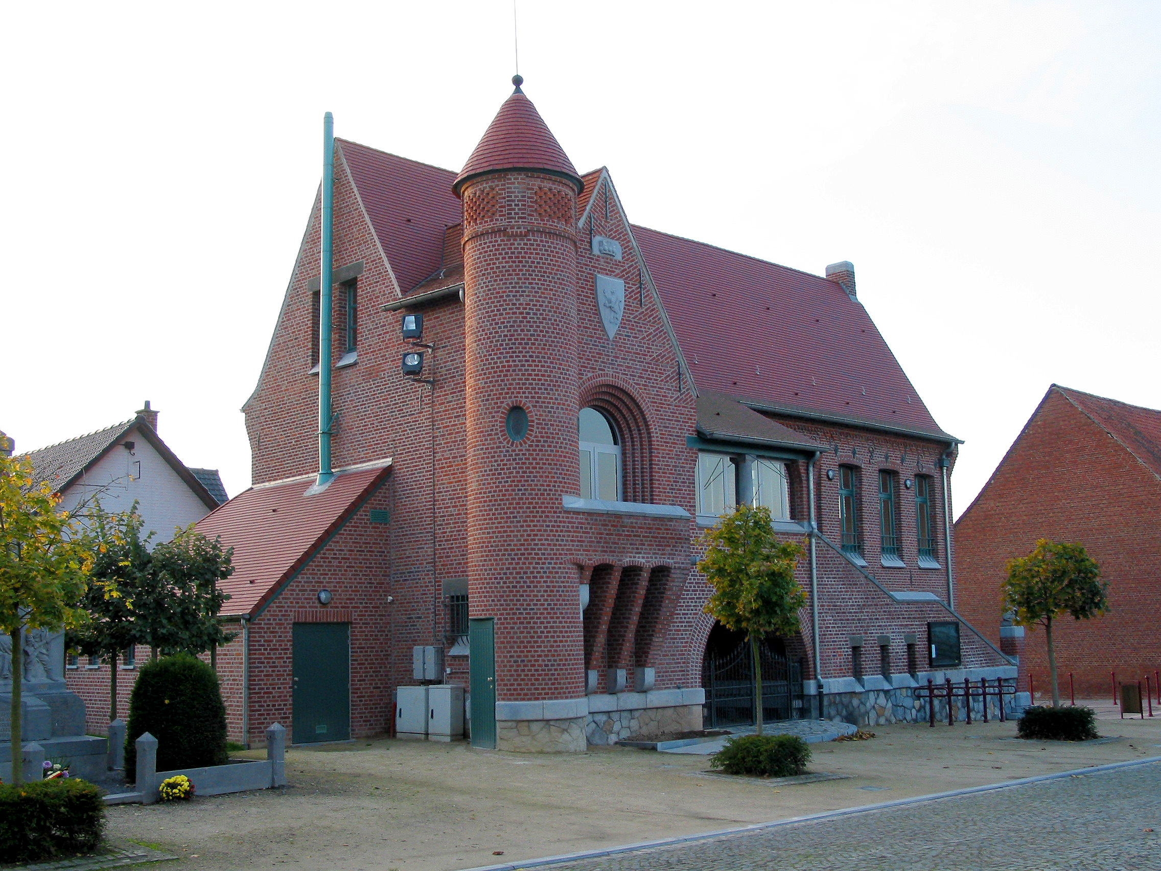 Bléharies (Belgium), the former town hall.